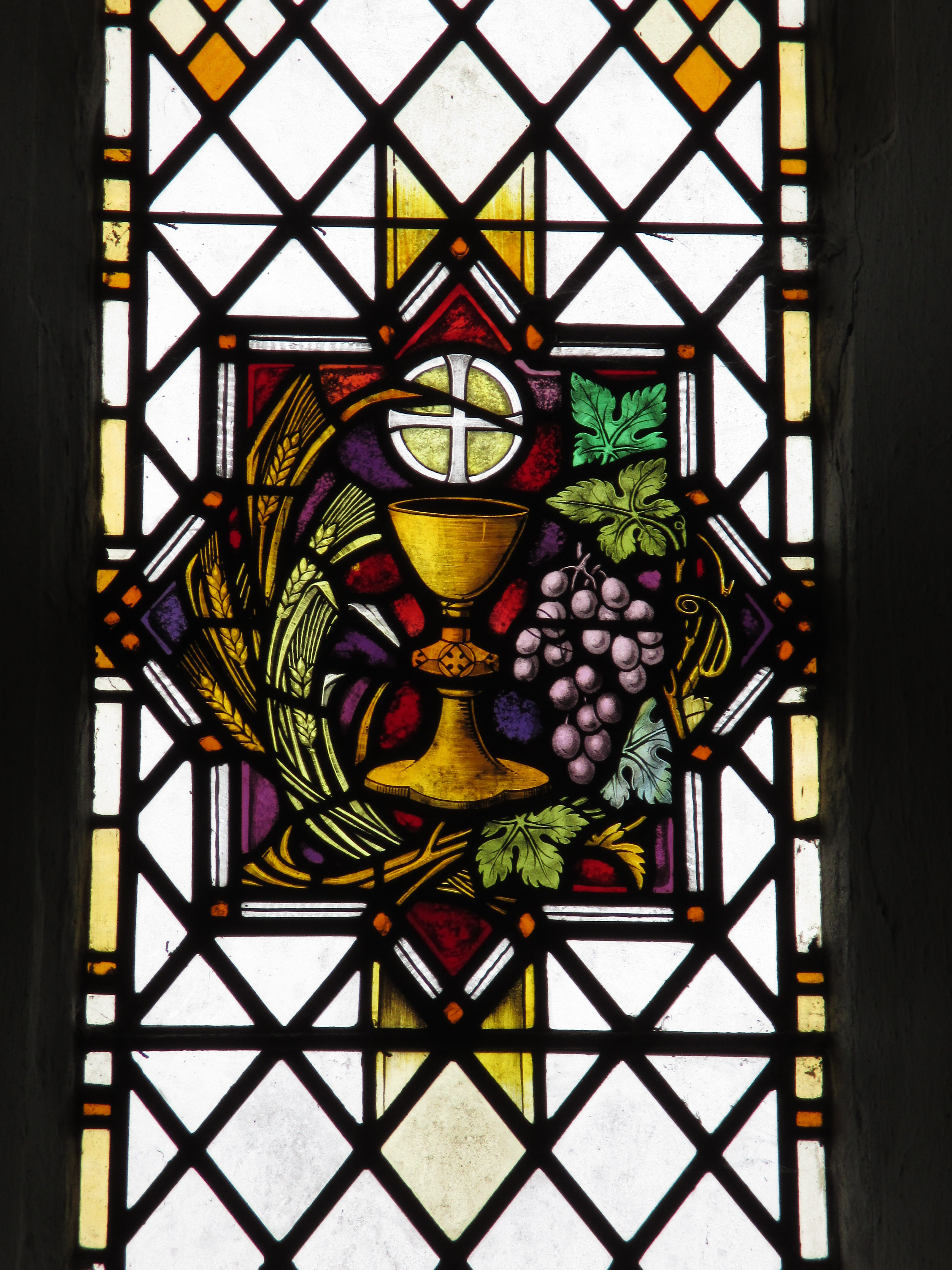 Detail of the first north chancel window of St Anne's Church, Lewes, East Sussex. It was produced by Goddard & Gibbs to a design by A. E. Buss in 1987.